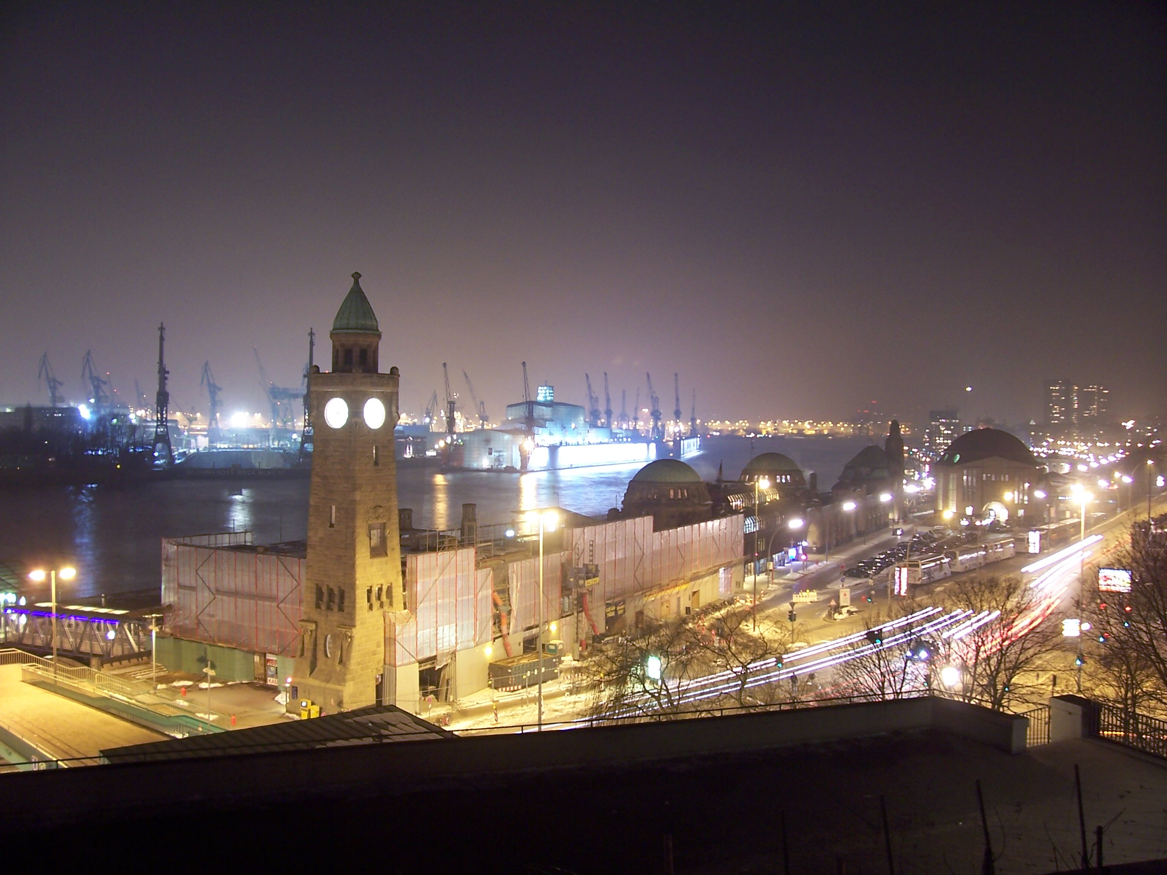 The Landungsbrücken in Hamburg